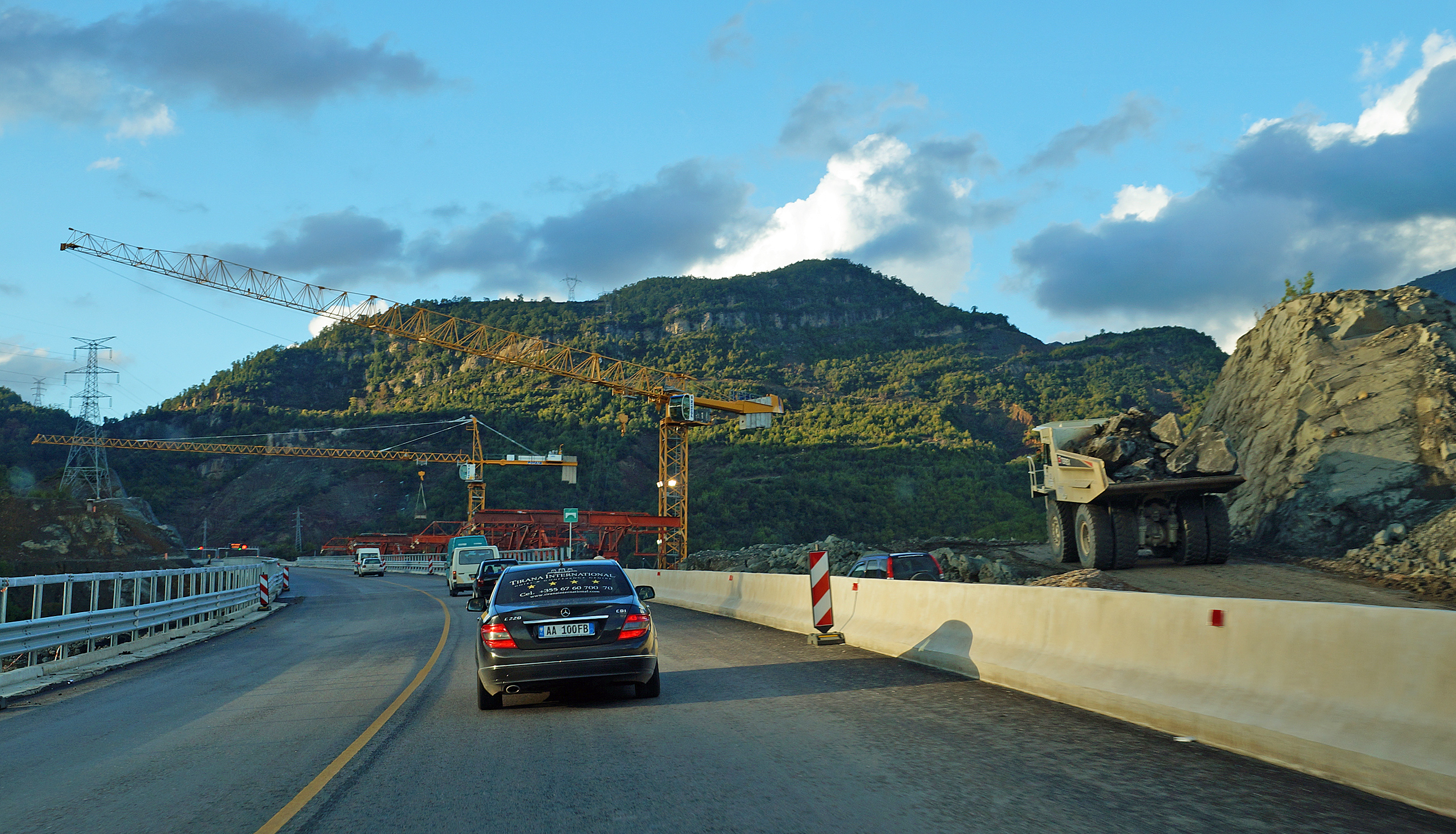 Highway A3 in Albania just South of the Krabba Tunnel during construction of the second lane in October 2013.